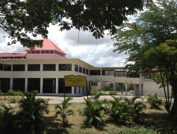 Queens College Guyana Dominates The CSEC Exams Every Year